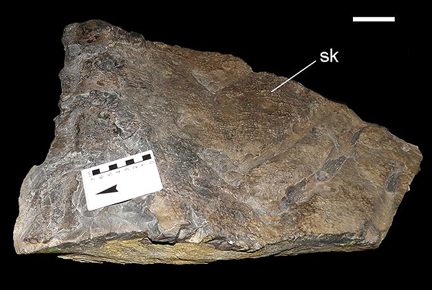 Caudal skin impression of Carnotaurus (MACN-CH 894). Scale bar: 5 cm.